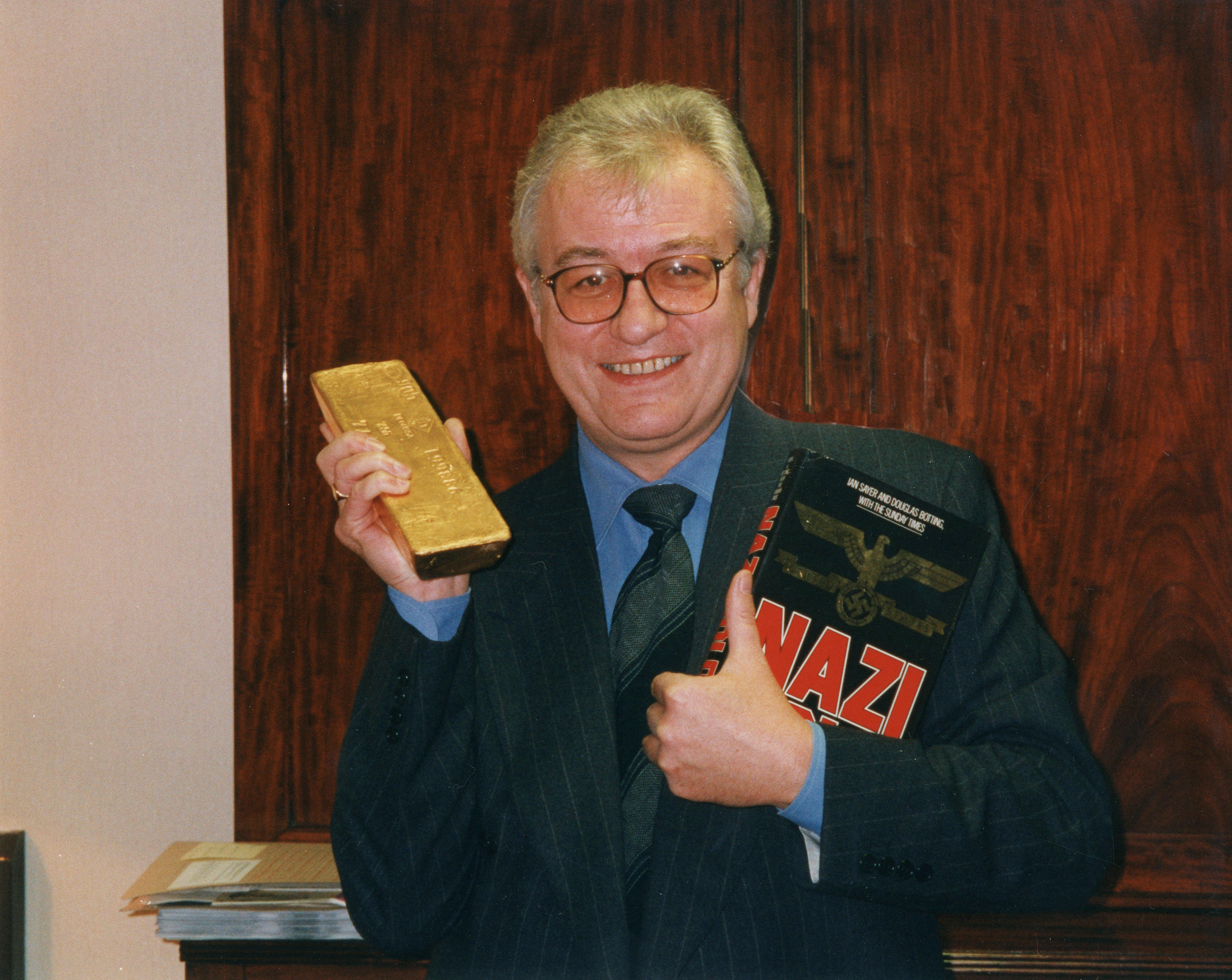 British historian Ian Sayer photograped at the Bank of England holding the bar of Nazi Gold bearing a swastika mark which is held in the bank's vault. Date of Image: 11 12 1997